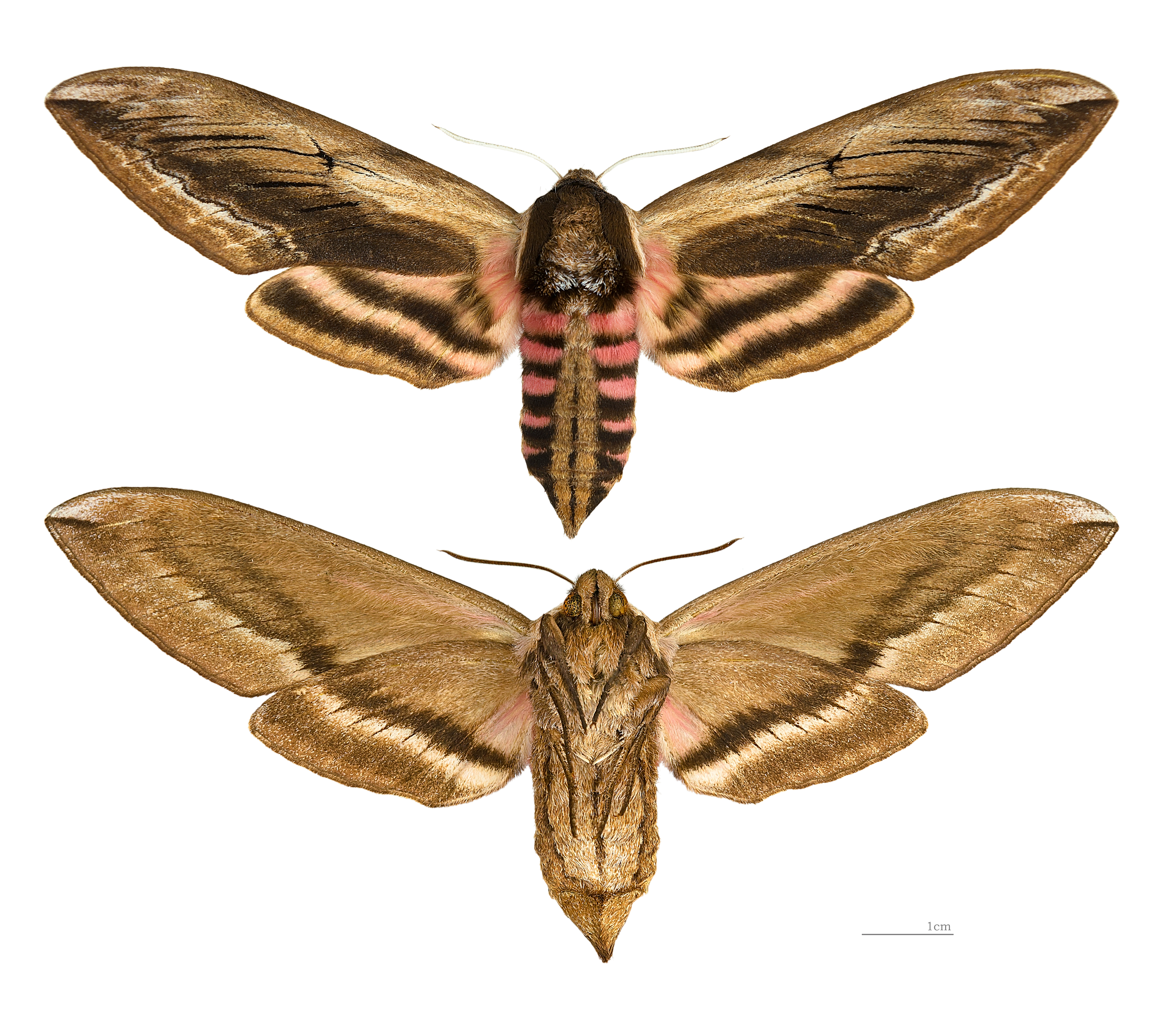 Privet Hawk Moth - Two views of same specimen